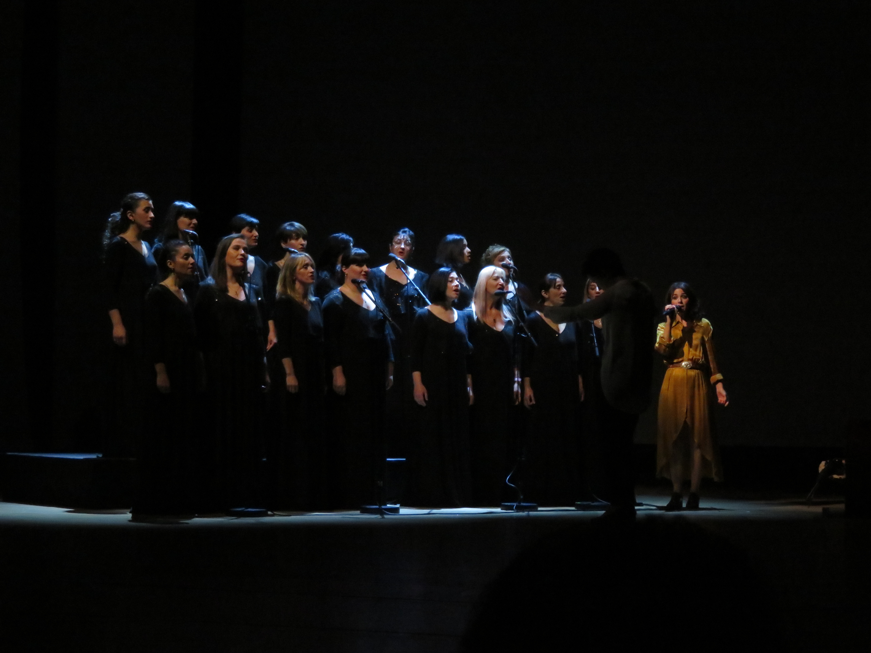 Katie Melua and Gori Women's Choir, 2018-11-21, Philharmonie im Gasteig, Munich, Germany